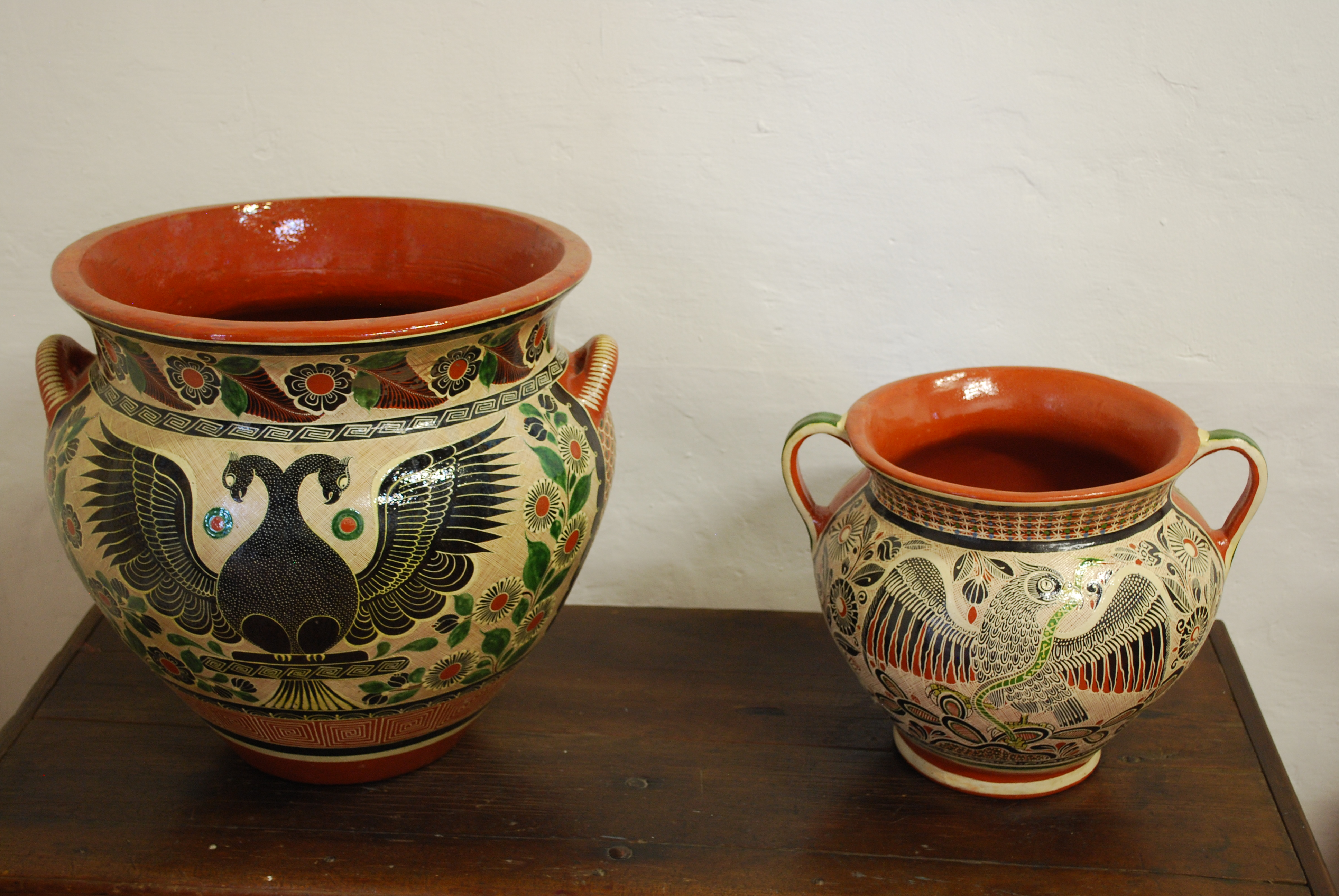 Ceramics at the Museo Regional de Ceramica in Tlaquepaque, Jalisco, Mexico